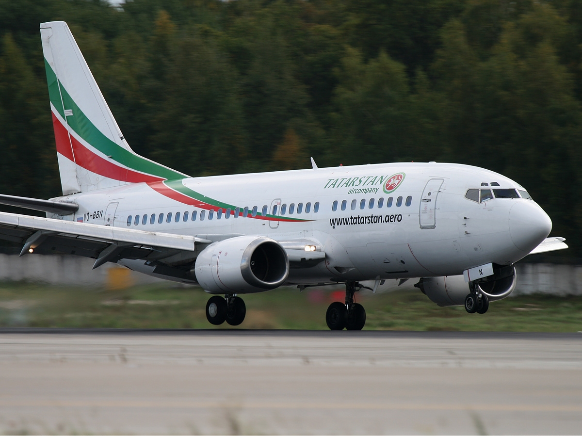 Tatarstan Airlines Boeing 737-500 VQ-BBN crashed on November 17th in Russia